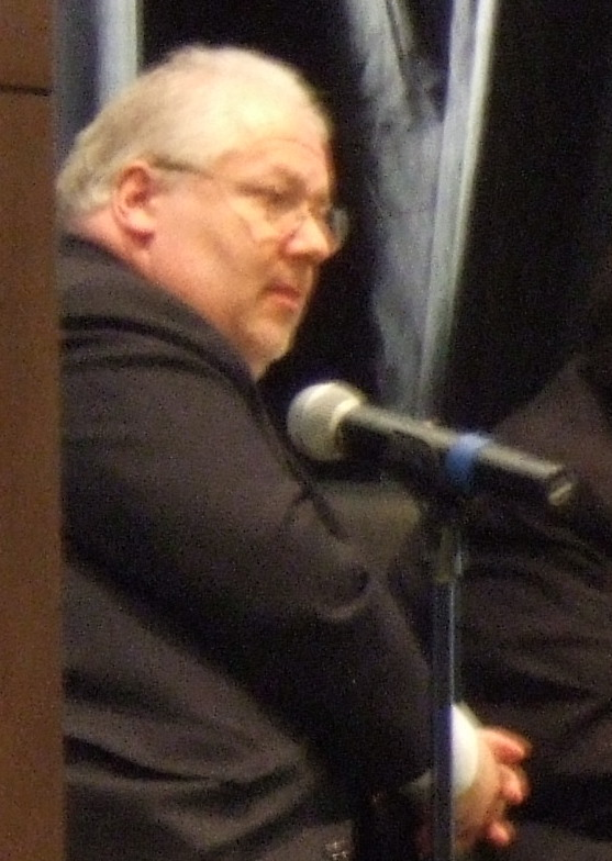 Toby Harris, Baron Harris of Haringey.